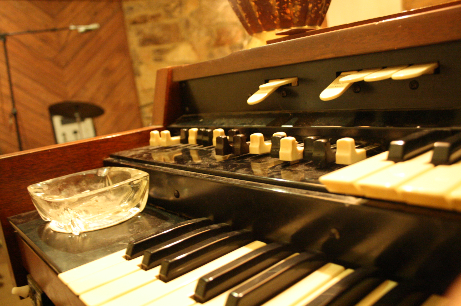 Hammond L-100 Series